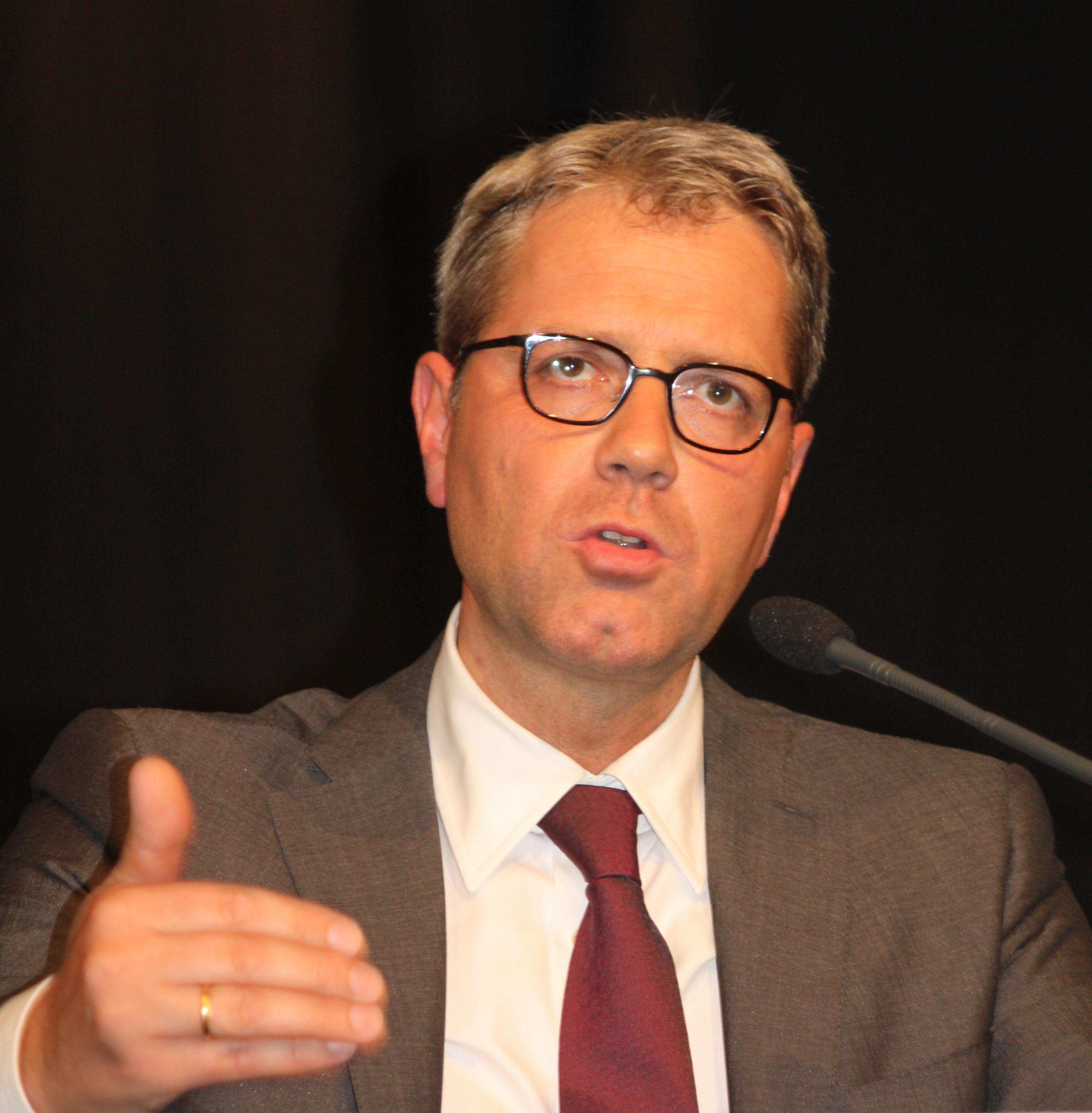 Norbert Röttgen, federal minister for enviroment in Pliening